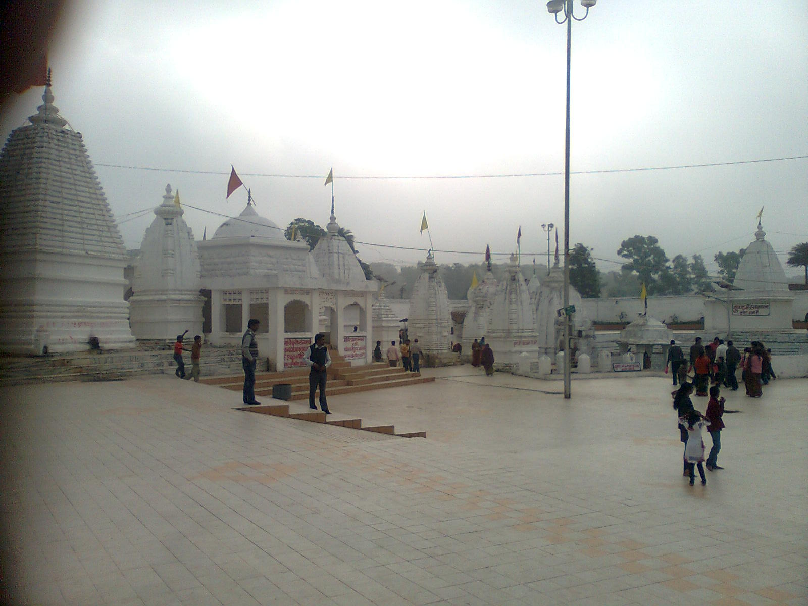 this temple is at indian satate of madhya pradesh in amarkantak this temple is of indian godess narmada and the water is shown is the origin of indian river NARMADA